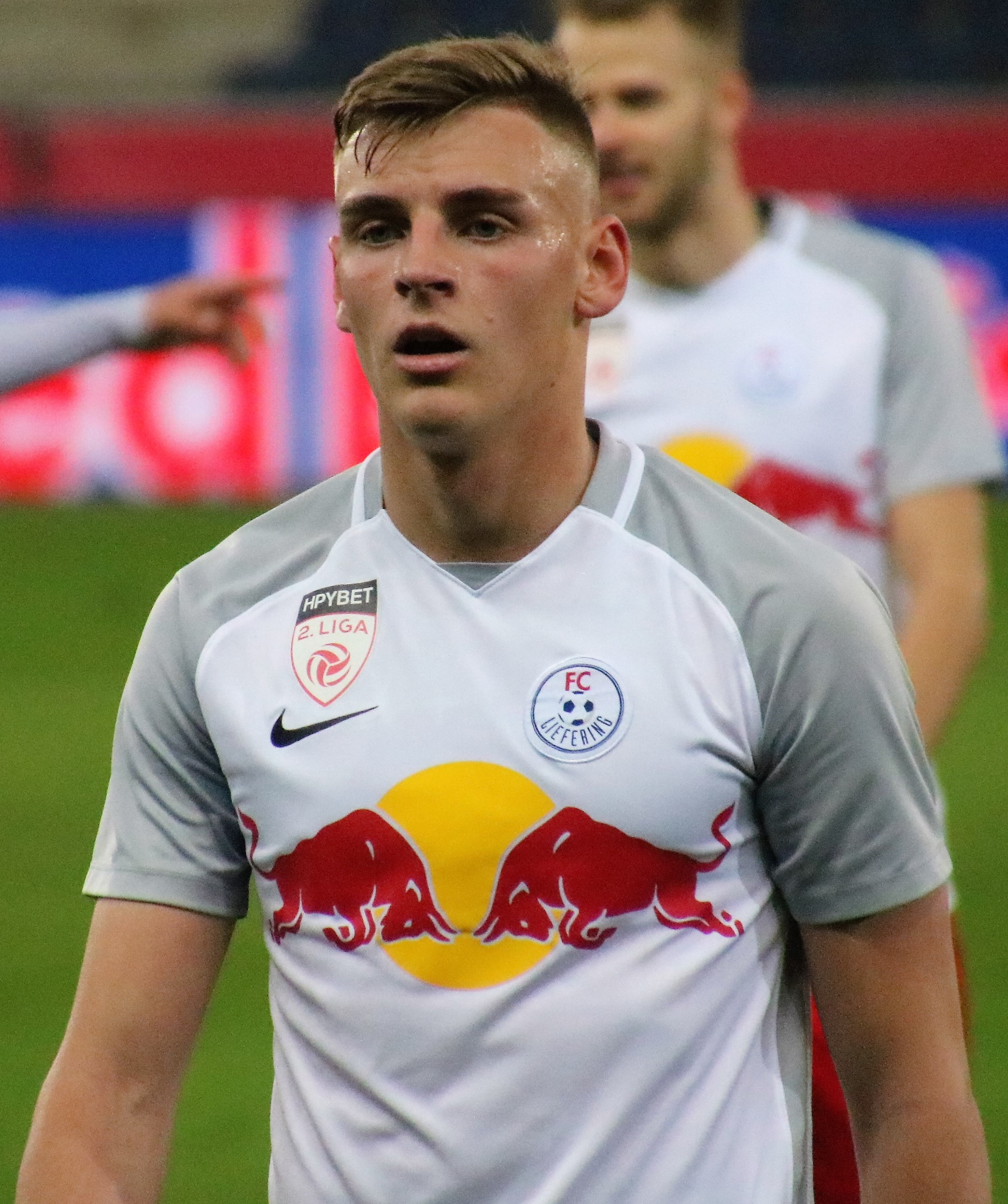 league match Austria 2nd league